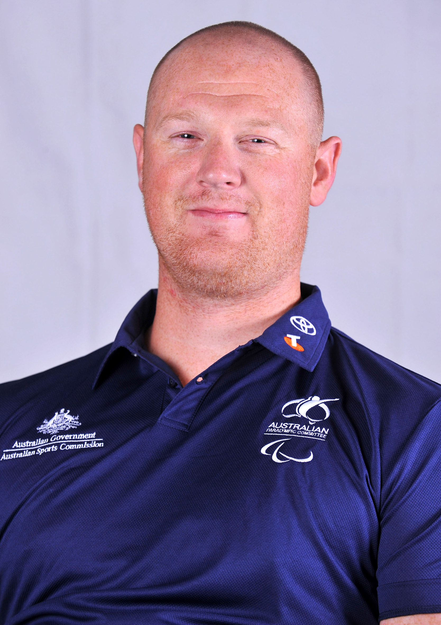 Portrait of Australian wheelchair rugby coach Brad Dubberley, 2012 Australian Paralympic (shadow) Team